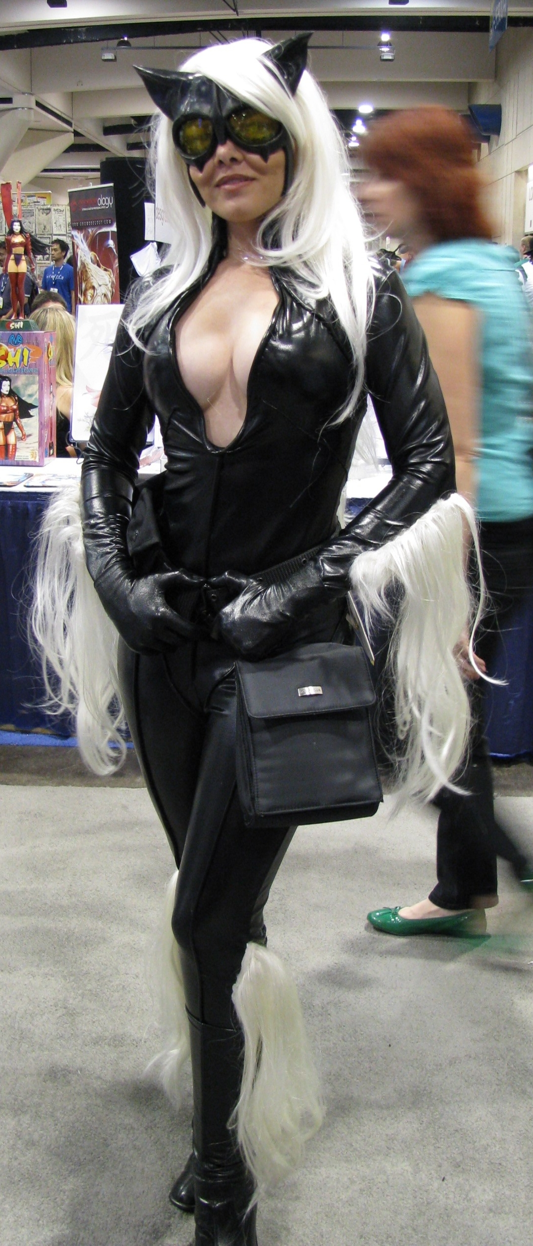 Black Cat, Comic Con 2008